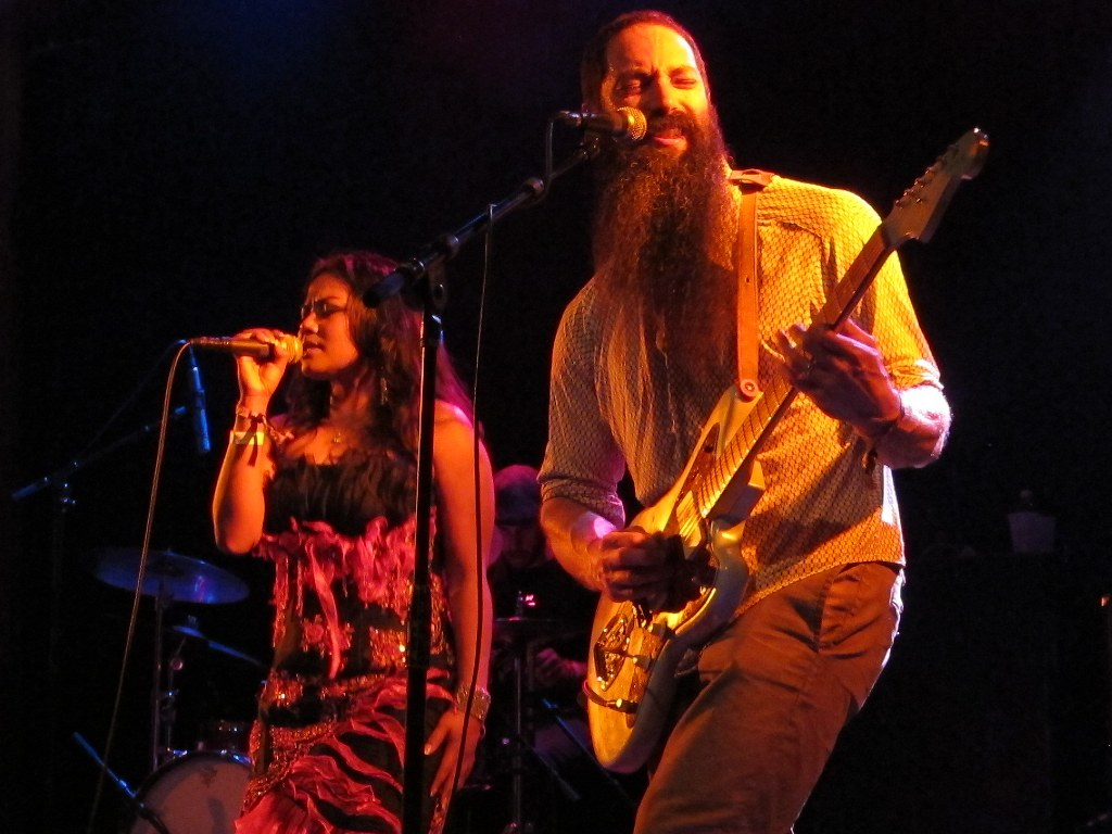 156 Dengue Fever Dengue Fever at the Bluebird Theater in Denver, Colorado. Photo by Jester Jay Goldman.